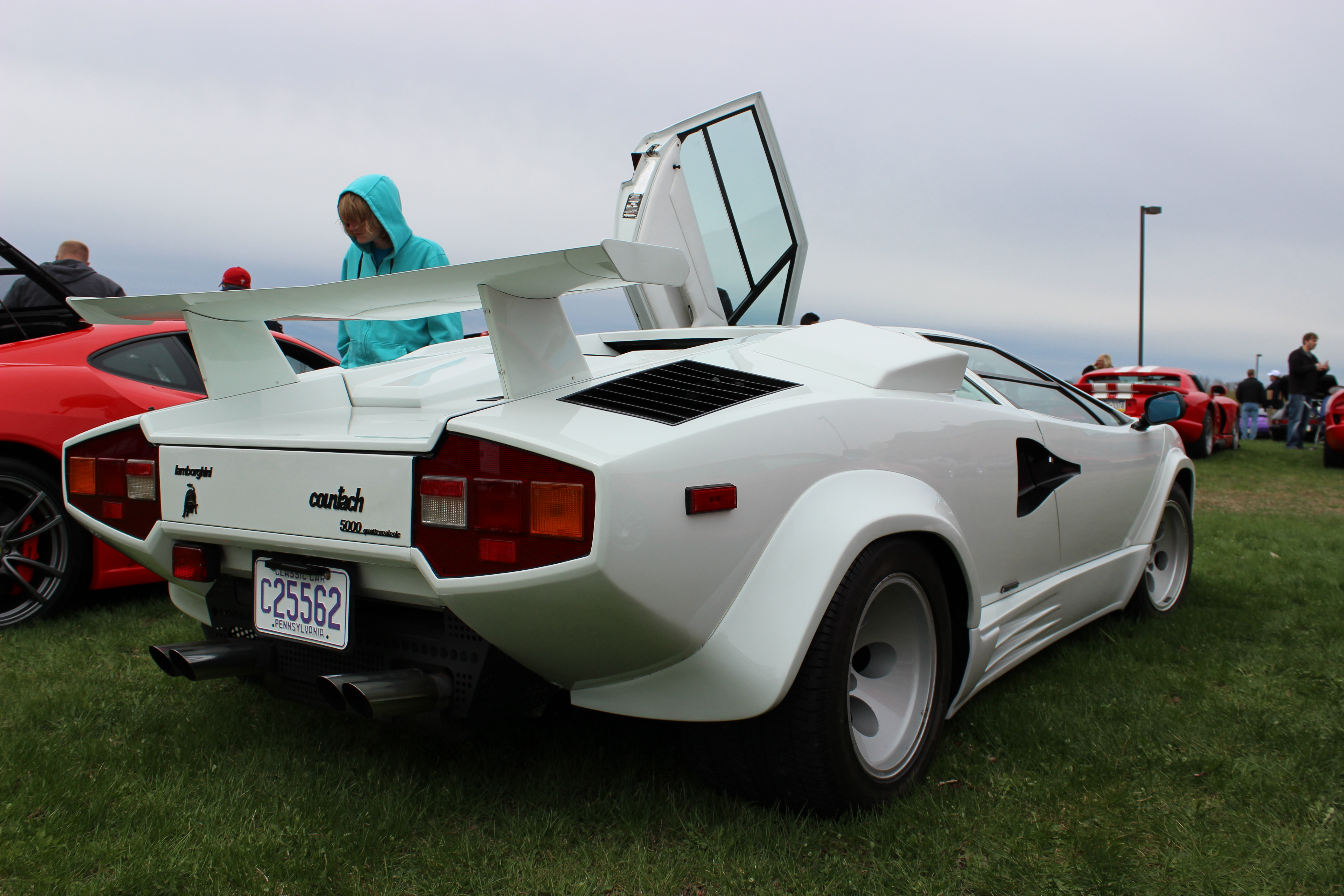 Lamborghini Countach LP5000QV